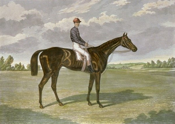 Engraving of Favonius, 1871 Epsom Derby winner, by E Hester after a painting by G Cosh